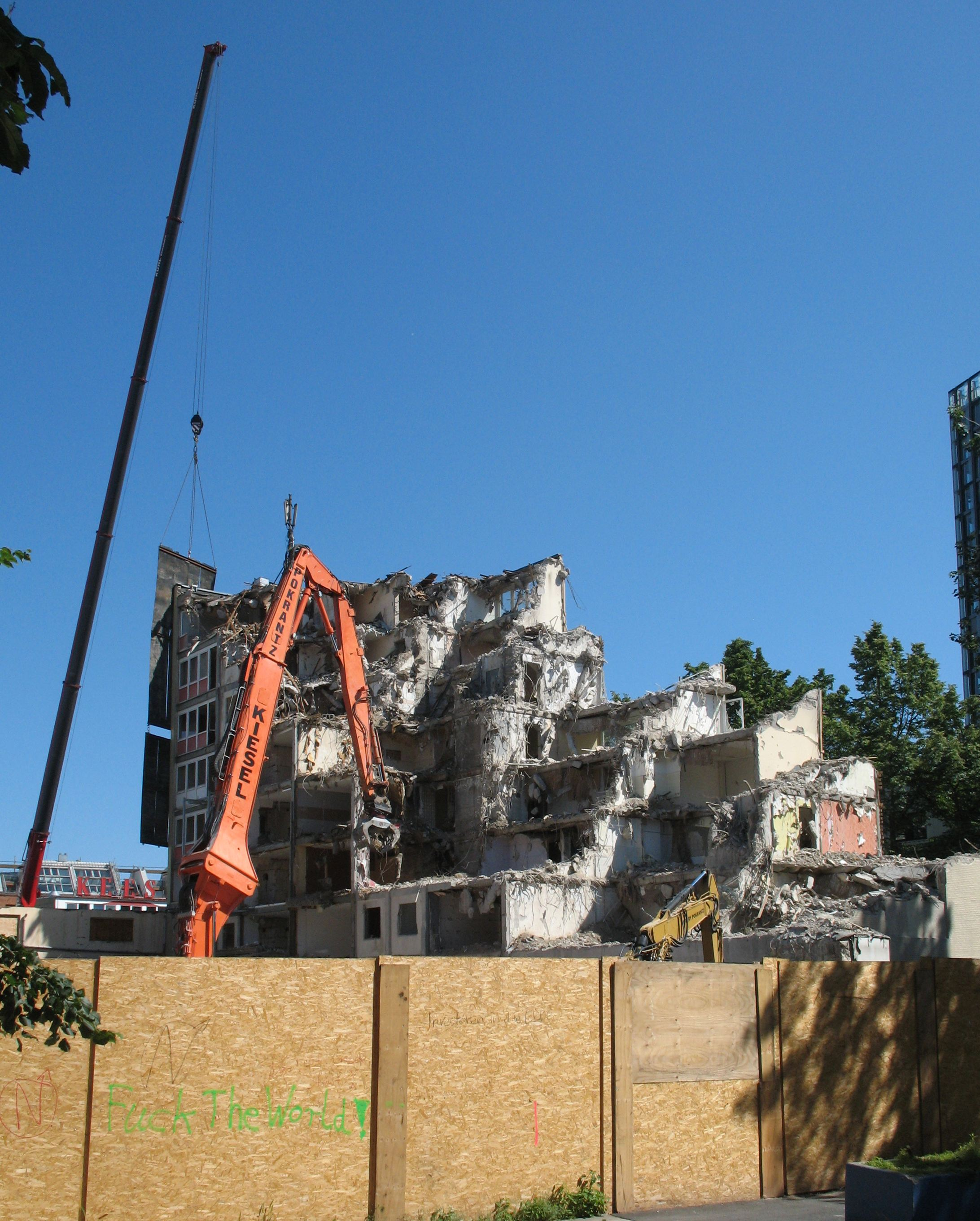 Eastern Esso building in Hamburg-St. Pauli, Germany